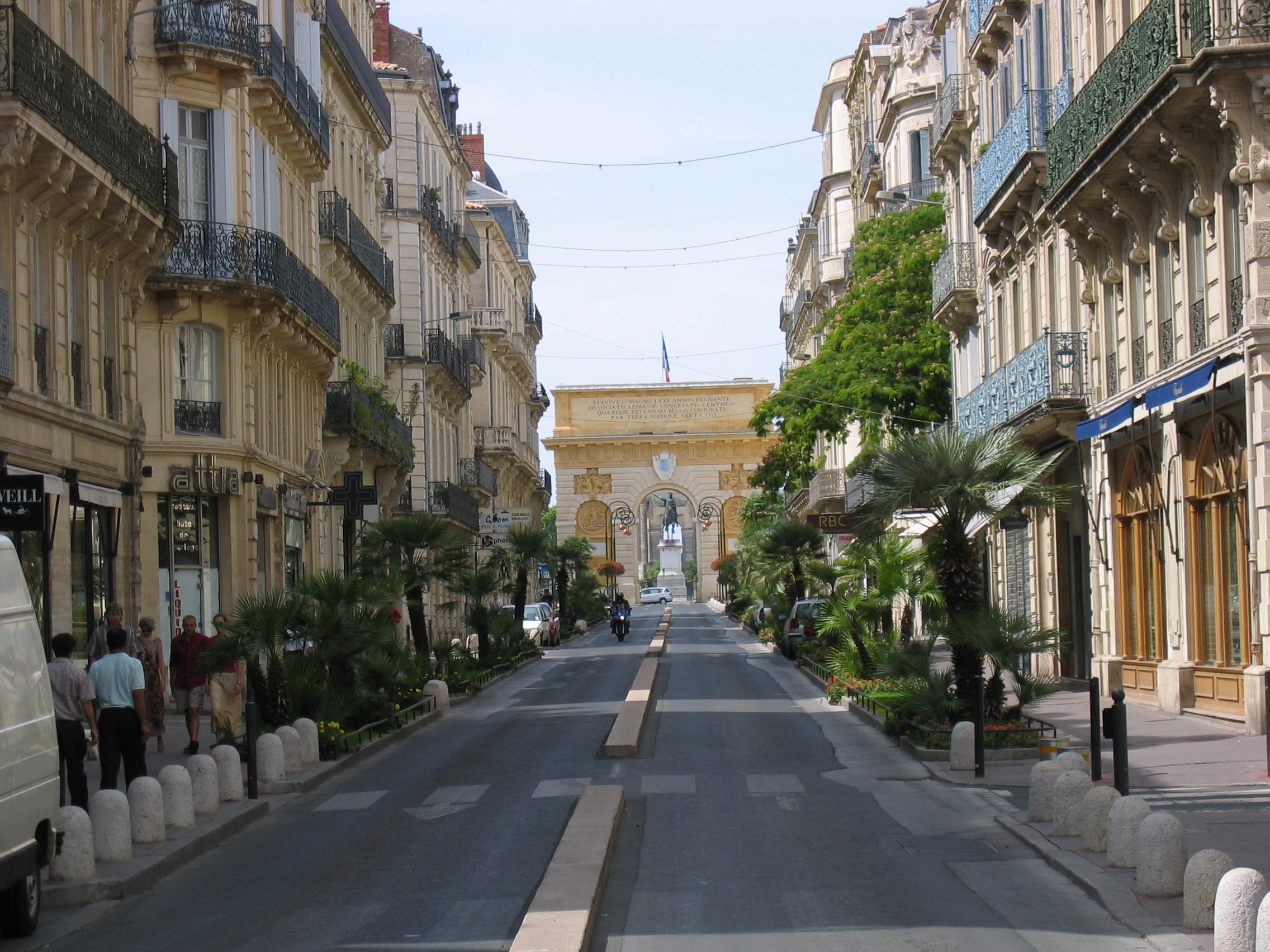 City of Montpellier, France